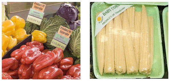 Example of Country of Origin Food Labelling